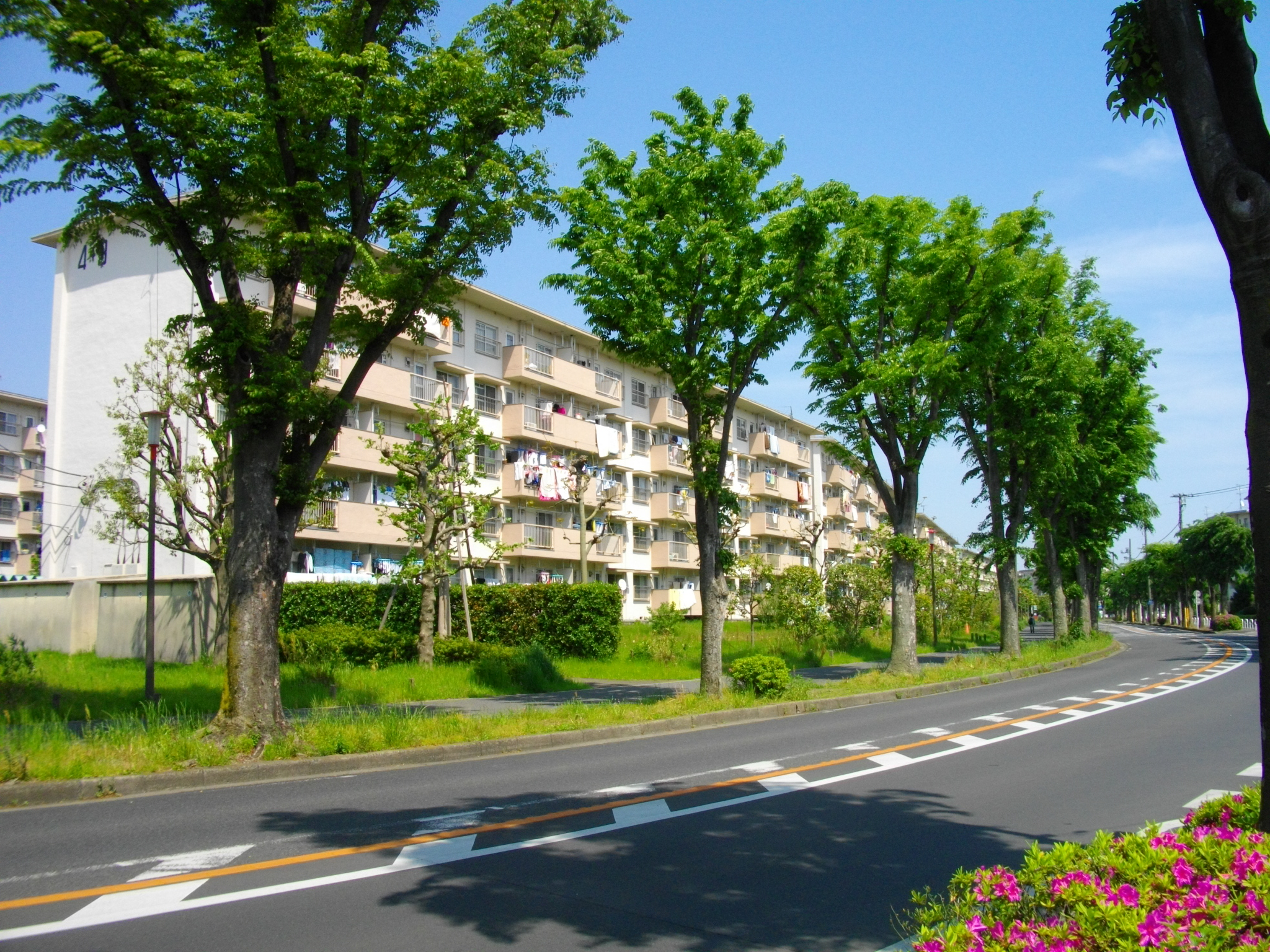 Takesato Danchi ("Takesato apartment houses complex") in Kasukabe City, Saitama Prefecture, Japan